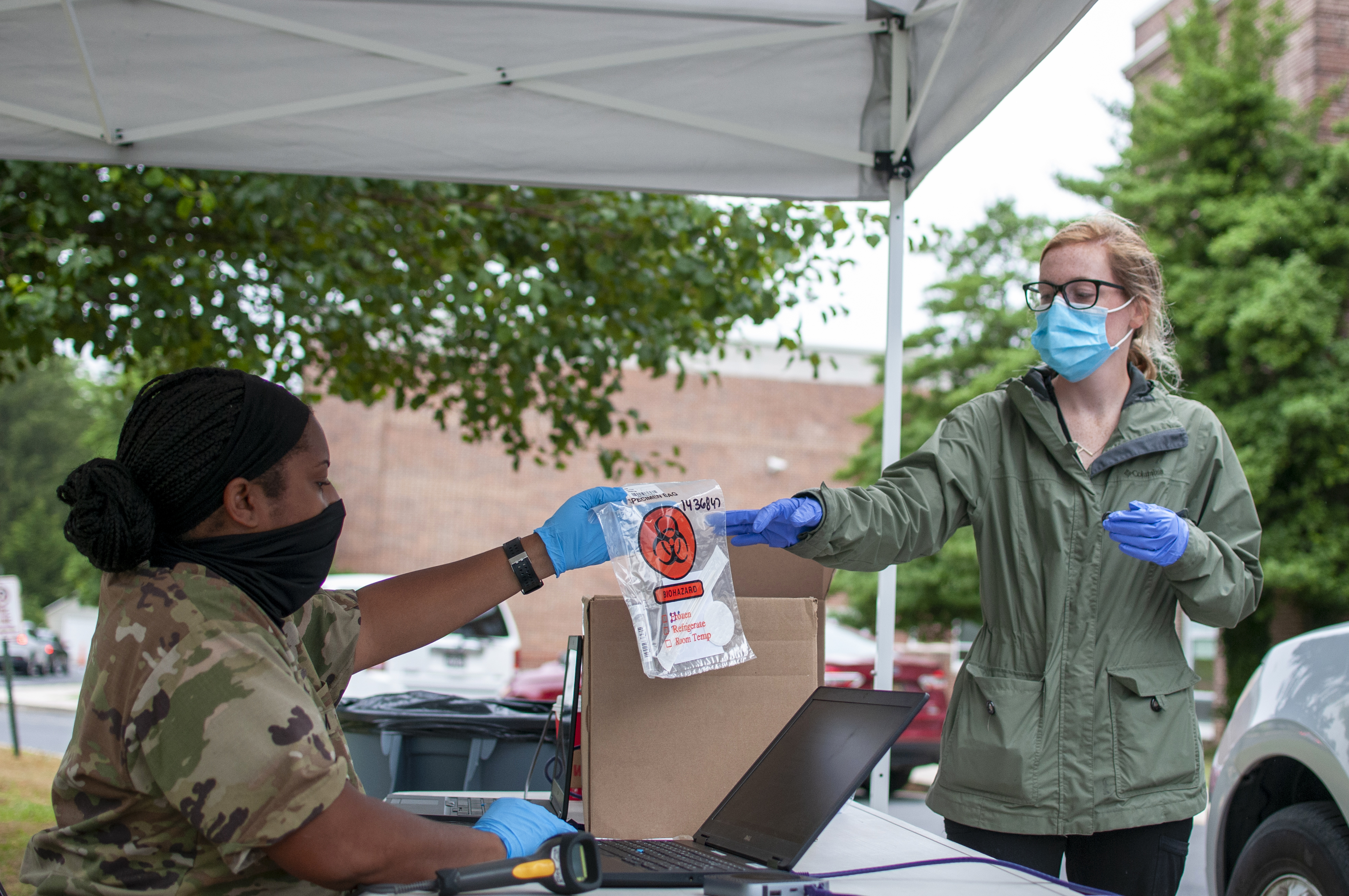 U.S. Army Sgt. Carol Beachum, a patient administration specialist with the Delaware Army National Guard Medical Detachment, passes a testing kit to Airman 1st Class Abby Connor, an aerospace medical technician with the Delaware Air National Guard’s 142nd Aeromedical Evacuation Squadron, at a drive-thru testing site for COVID-19 on the grounds of Central Middle School in Dover, Delaware, June 17, 2020. About 10 soldiers and airmen with the National Guard supported the saliva-based testing of 130 people at the school location. (U.S. Army National Guard photo by Capt. Brendan Mackie)